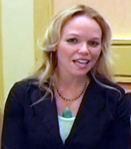 Meet “True Blood’s” Lauren Bowles! Gore De Vol's Mark J. Gross interviews this star from the hit TV series.